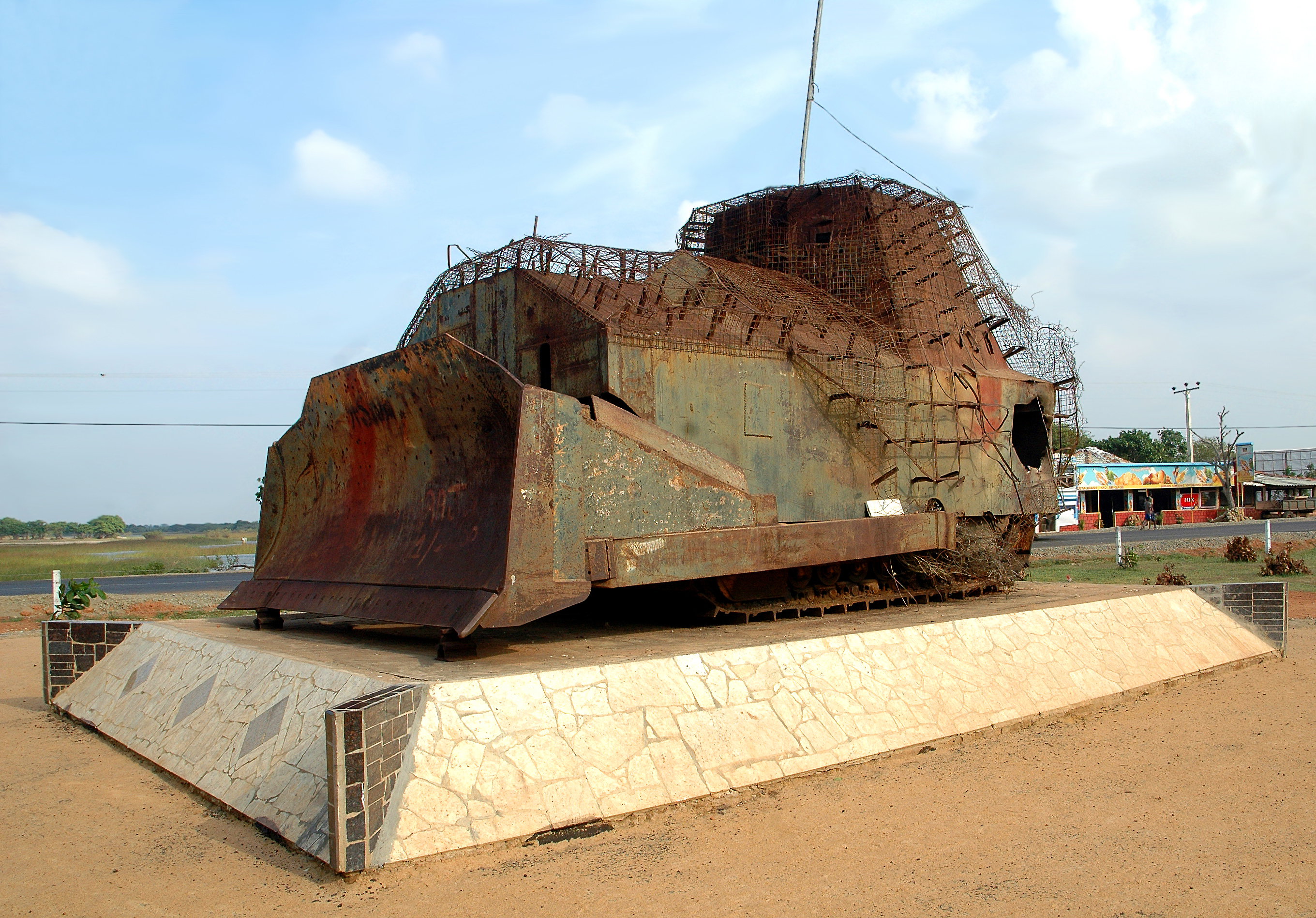 Improvised armored bulldozer of Liberation Tigers of Tamil Eelam used in First Battle of Elephant Pass (1991). Today, it is one of the Sri Lankan Civil War memorials.